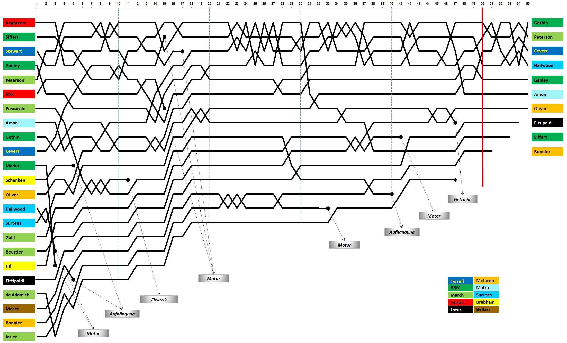 Round table italien Grand Prix 1971